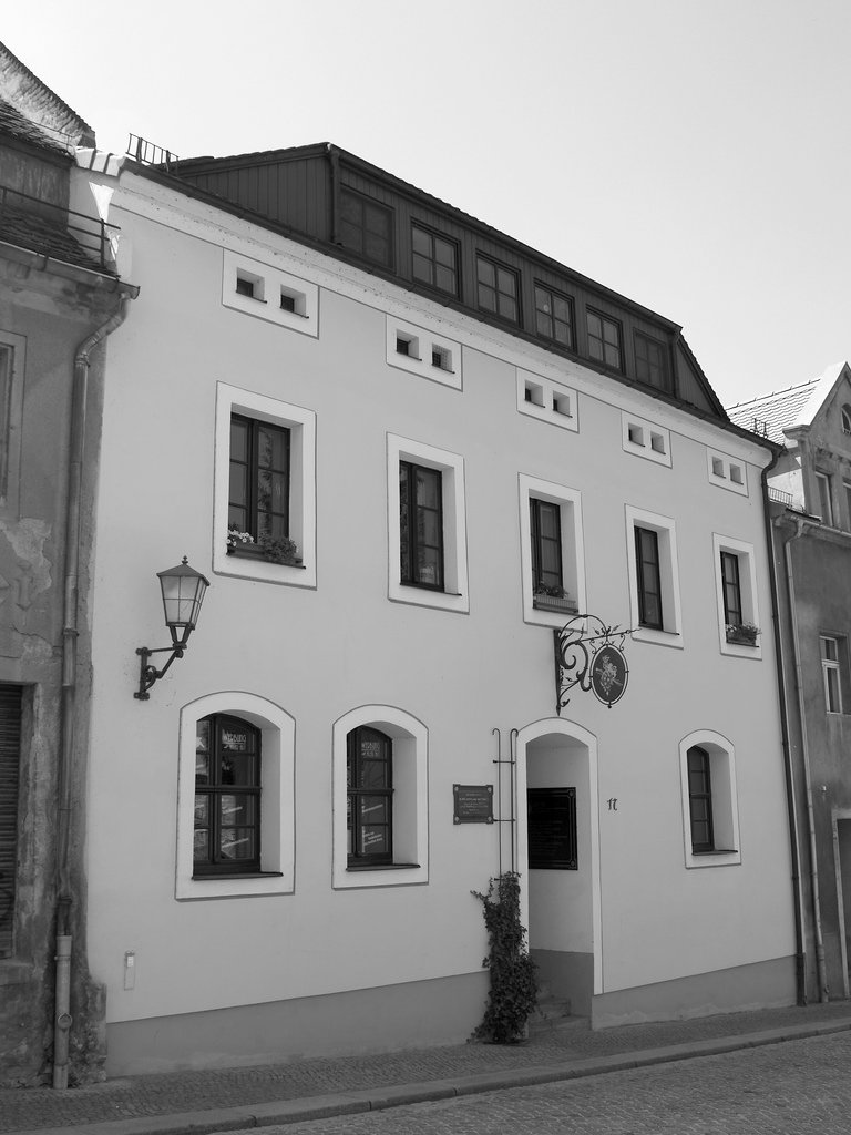 Birth place of Karl Friedrich Gottlob Wetzel (1779-1819) in Bautzen, Germany.